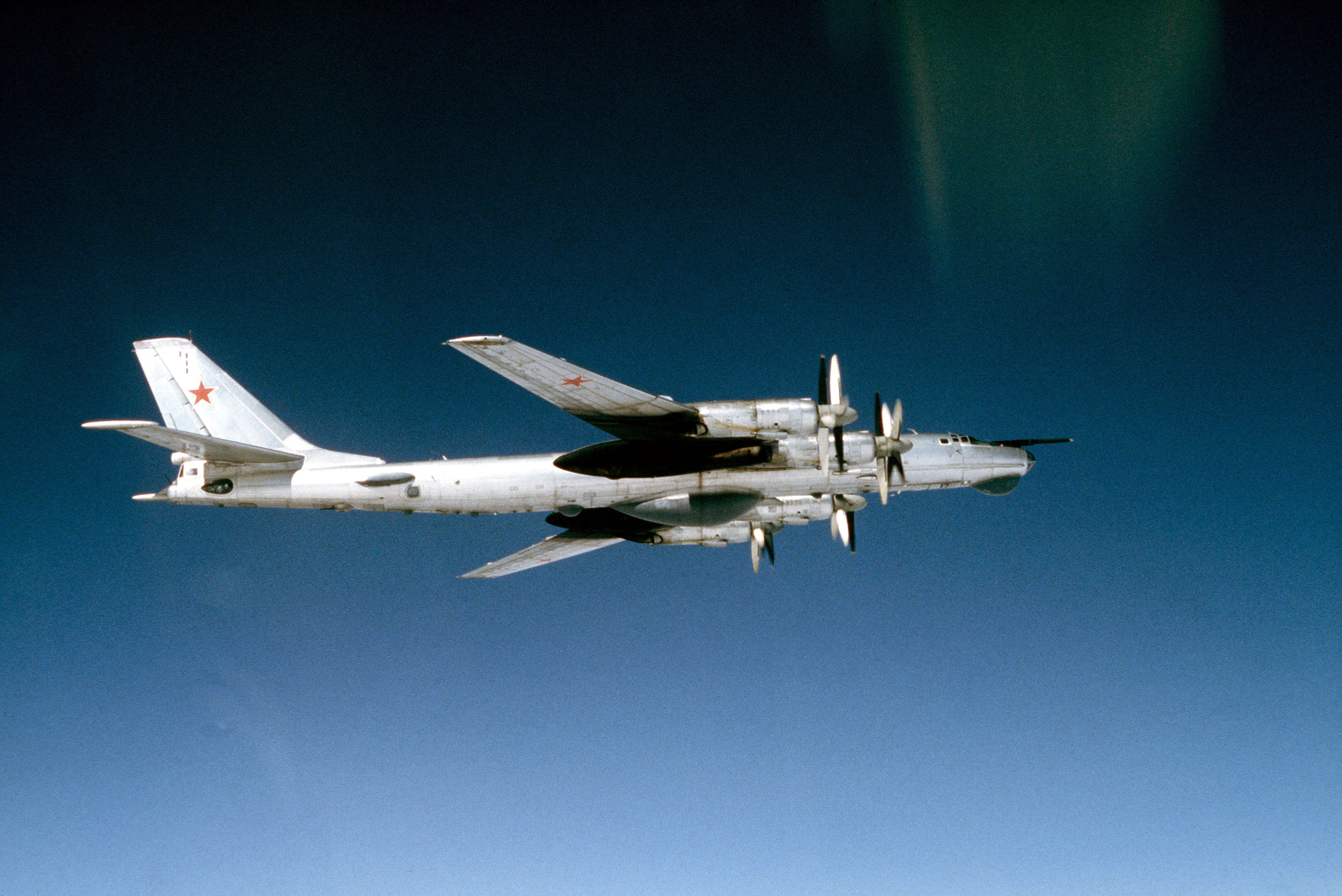 An air-to-air right side view of a Soviet Tu-95RTs Bear D strategic bomber aircraft. Date Shot: 5 May 1983